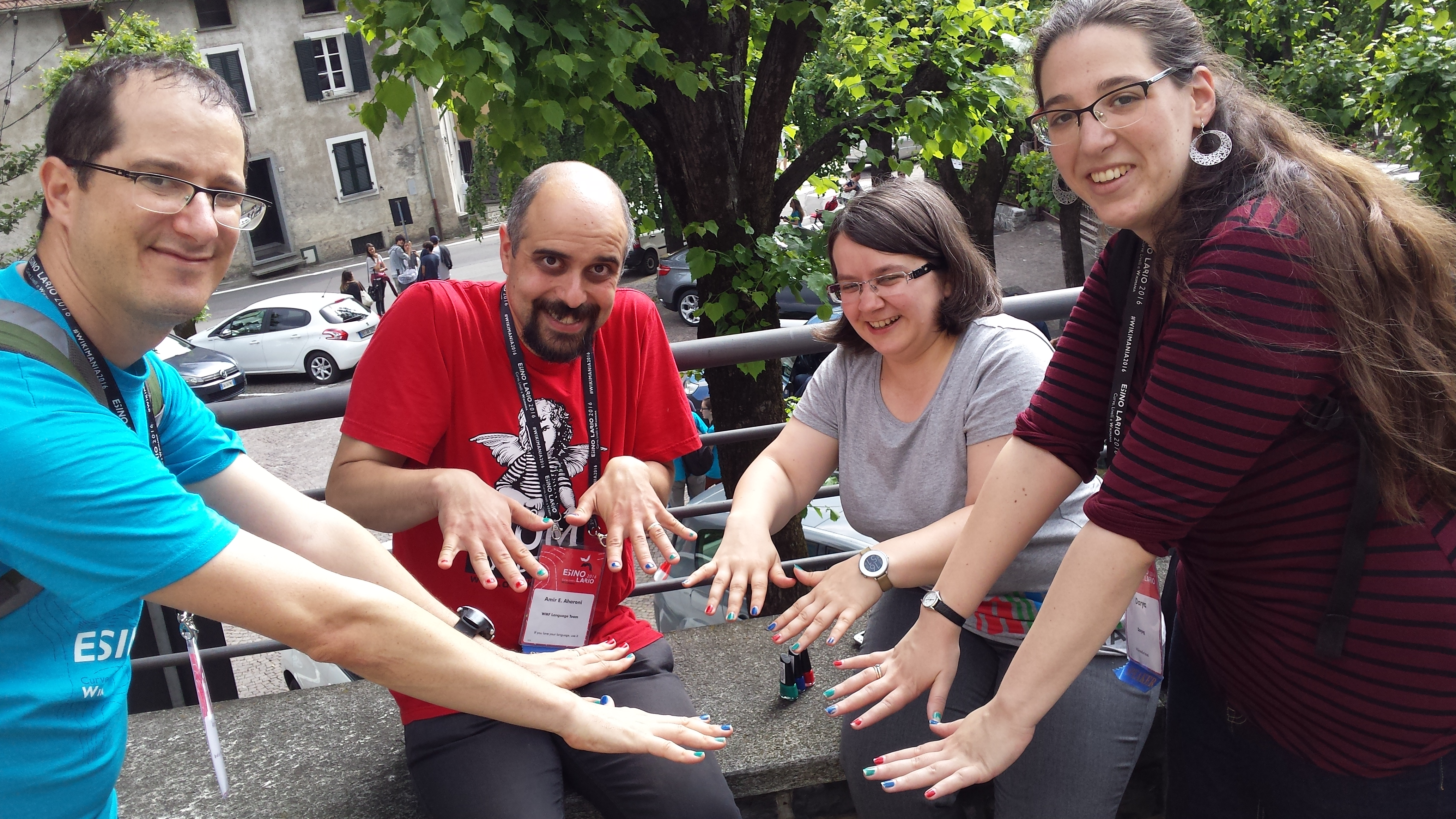 Wikimania 2016 Wikipedians put on nail polish in the colors of Wikidata logo.